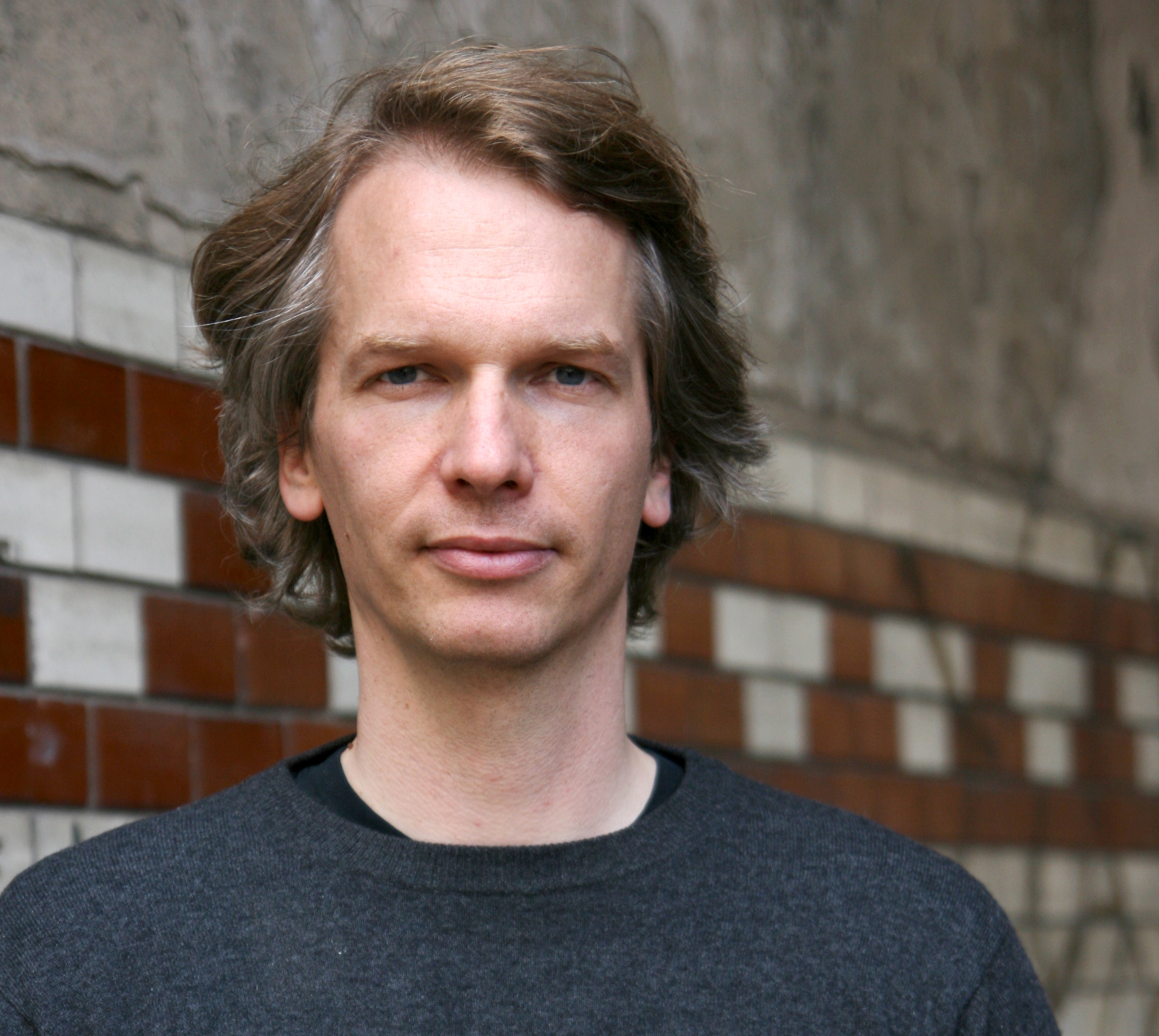 Aram Bartholl, portrait 2011